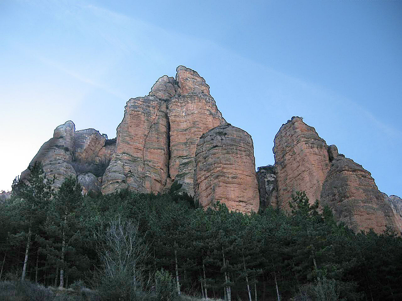 North face of Peña Bajenza